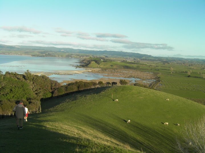 New Zealand has parks with rolling hills and REAL SHEEP (which cut the grass). Duder Regional Park, in the greater Auckland area of New Zealand. This picture is public domain from An American's perspective on New Zealand (see notice at top of article). Questions? Ask here.